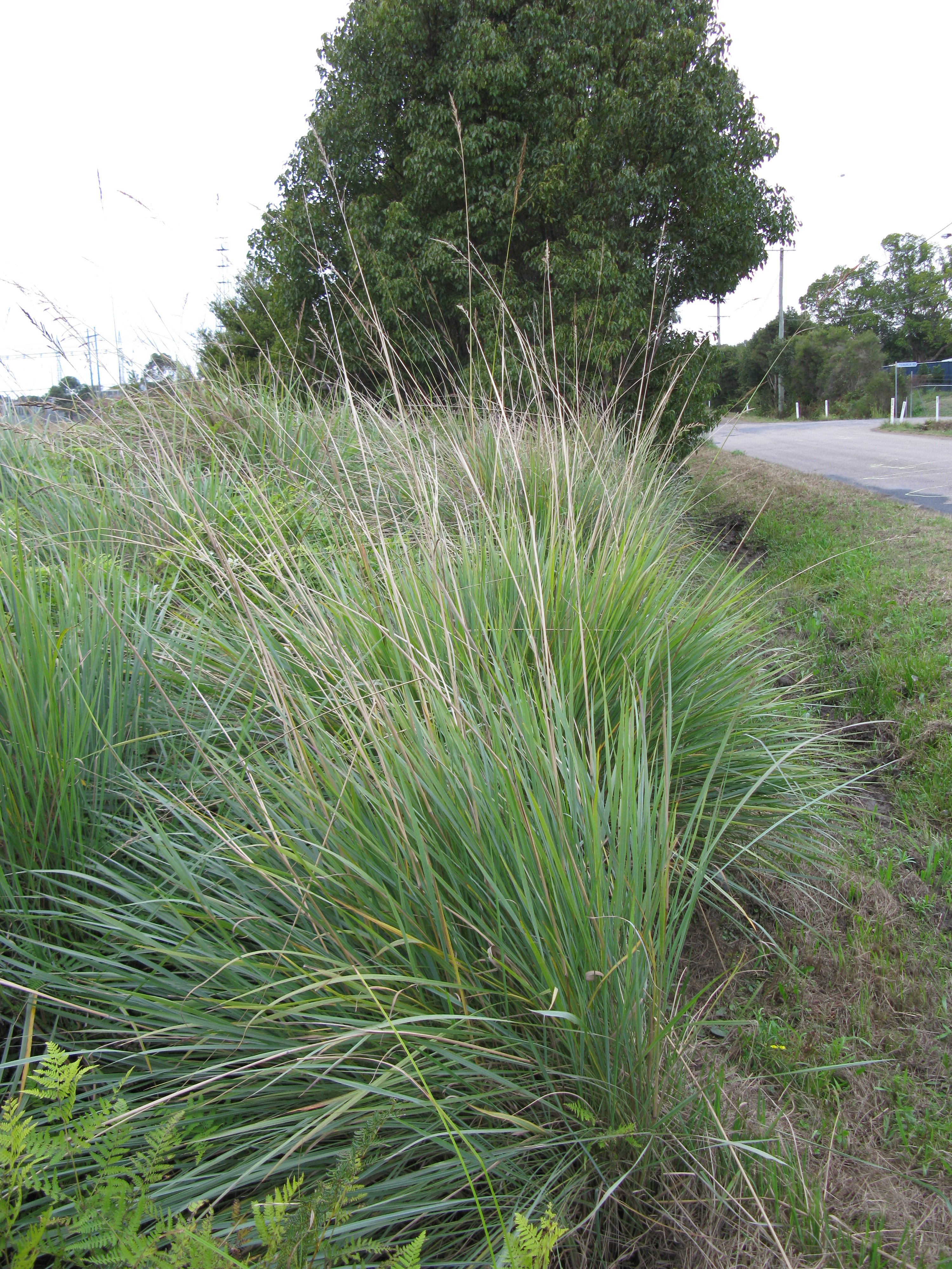 Introduced, warm-season, perennial, large, coarse, tufted grass to about 1.8m tall. A native of South America, it is persistent in disturbed but unmown sites of low fertility. Declared as a noxious weed in some Sydney sandstone areas.